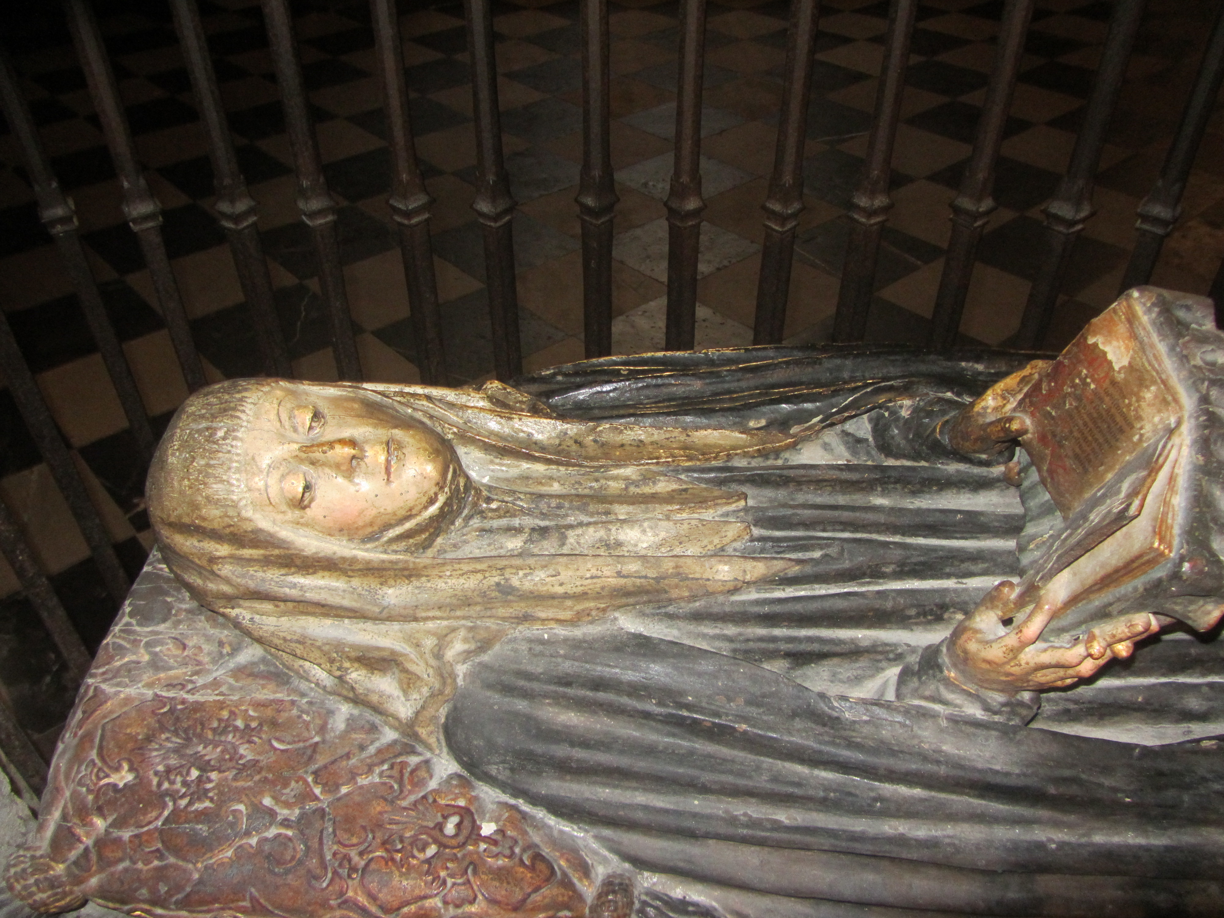 Escultura yacente de doña Inés Osorio en la catedral de Palencia, obra del maestro Portillo